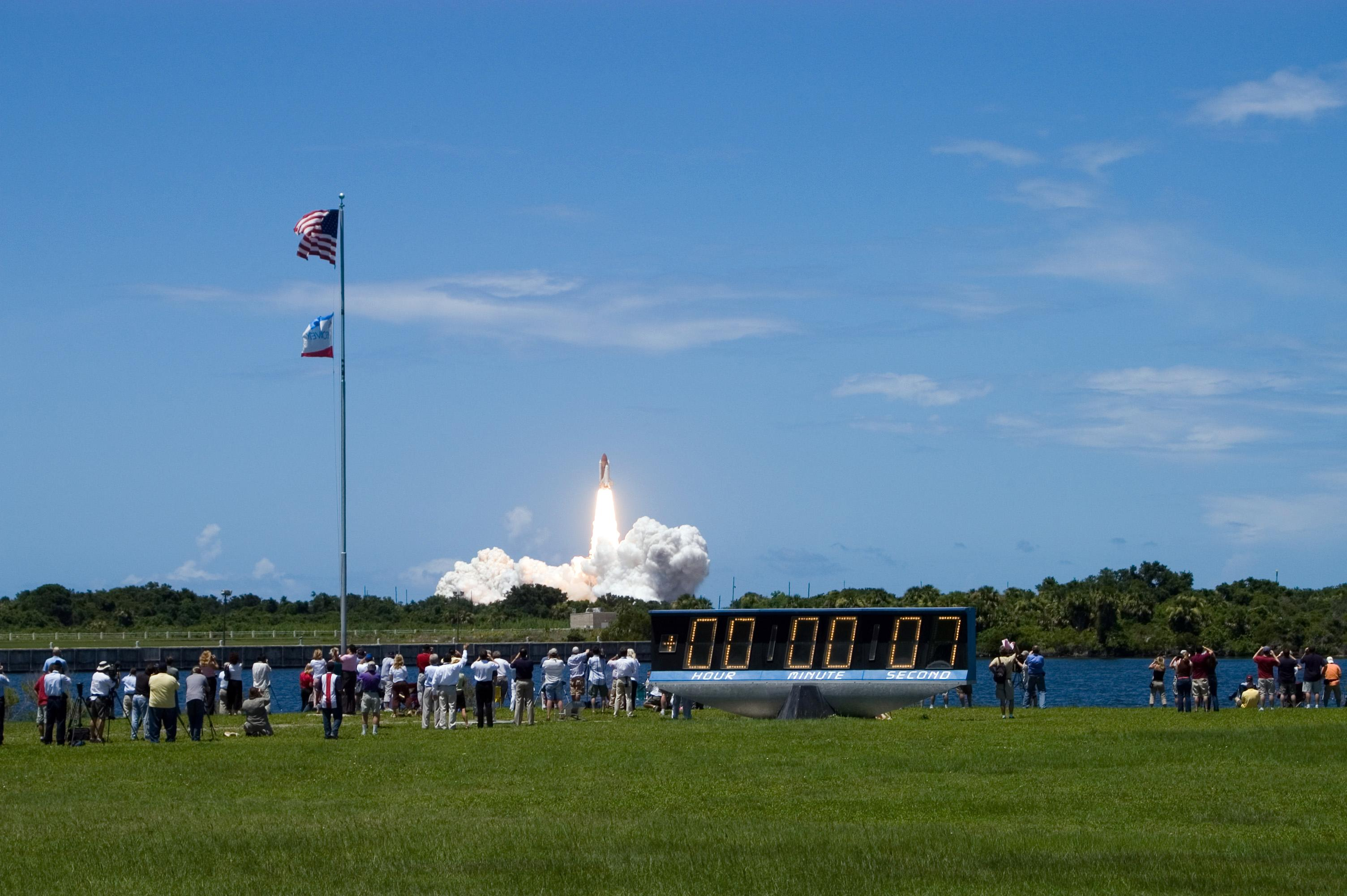 KENNEDY SPACE CENTER, FLA. – Like a roman candle shooting through the blue sky, the launch of Space Shuttle Discovery on mission STS-121 kicks off the fireworks for the U.S. holiday in its third launch attempt in four days. Liftoff was on-time at 2:38 p.m. EDT. The countdown clock on the grounds of the NASA News Center shows 7 seconds into the launch. Media crowd the banks of the turn basin to capture the sight of the launch. During the 12-day mission, the STS-121 crew of seven will test new equipment and procedures to improve shuttle safety, as well as deliver supplies and make repairs to the International Space Station. Landing is scheduled for July 17 at Kennedy's Shuttle Landing Facility.